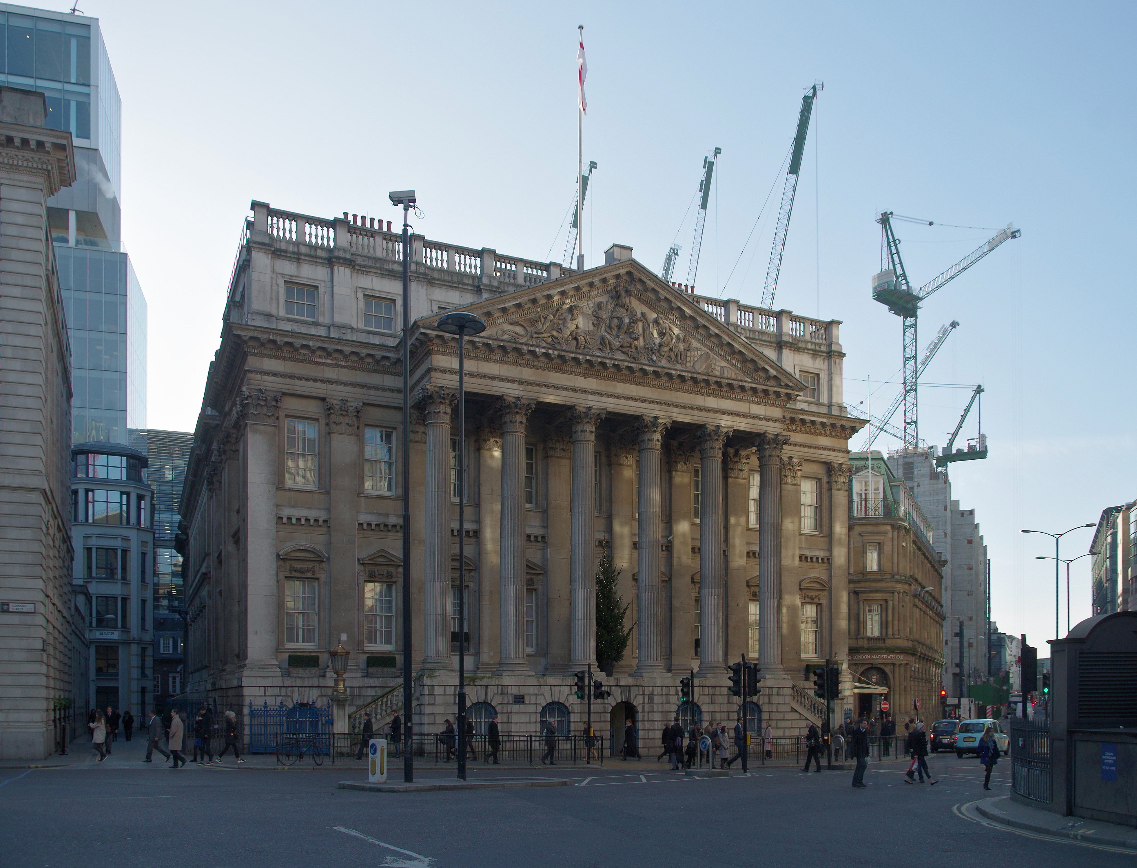 The northern face of Mansion House in the City of London.